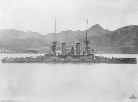 Starboard side photograph of British battleship HMS Triumph, apparently during the Dardanelles campaign in 1915.